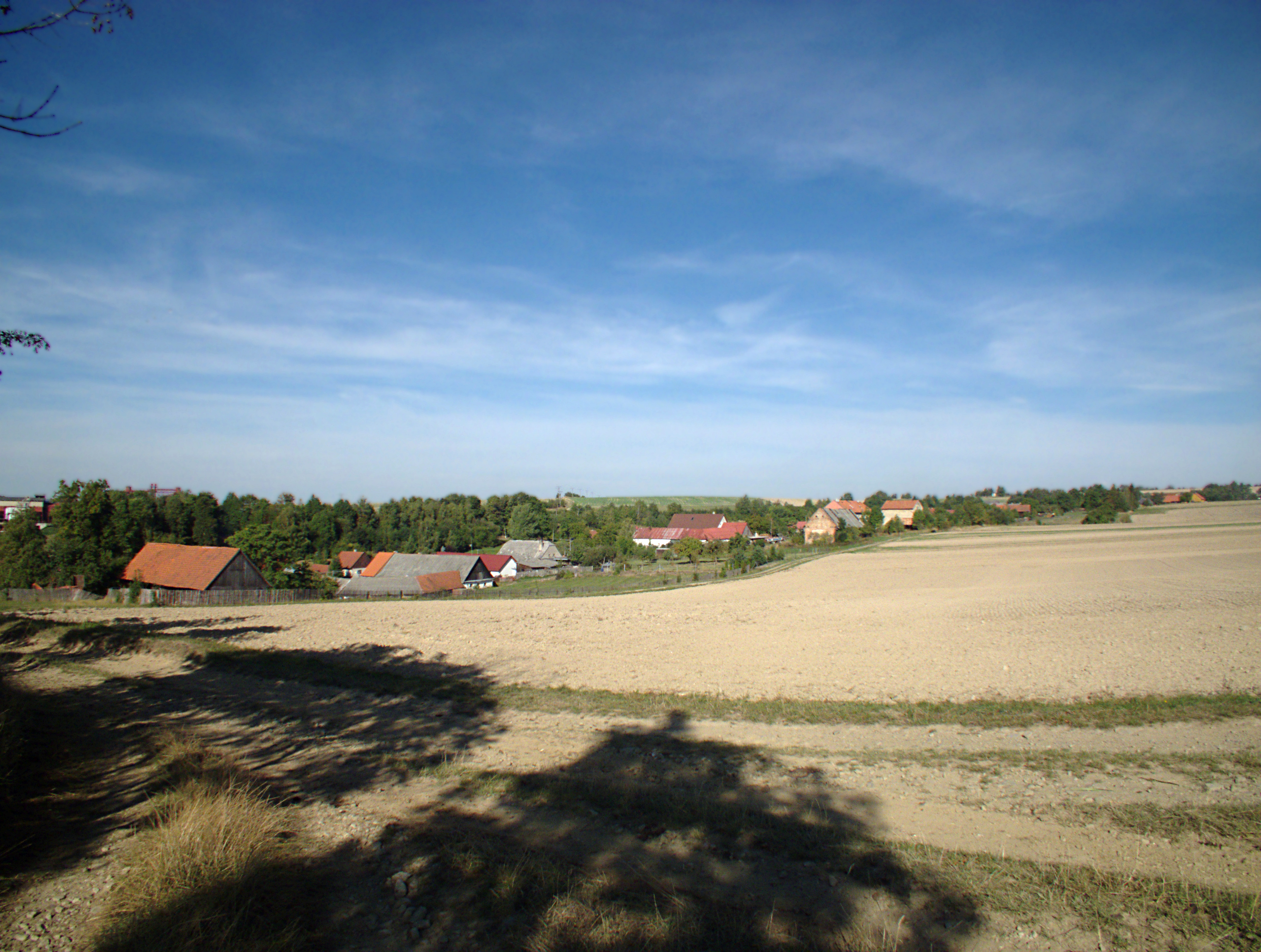 The south-eastern view of Kyžlířov (from the path from Partutovice)